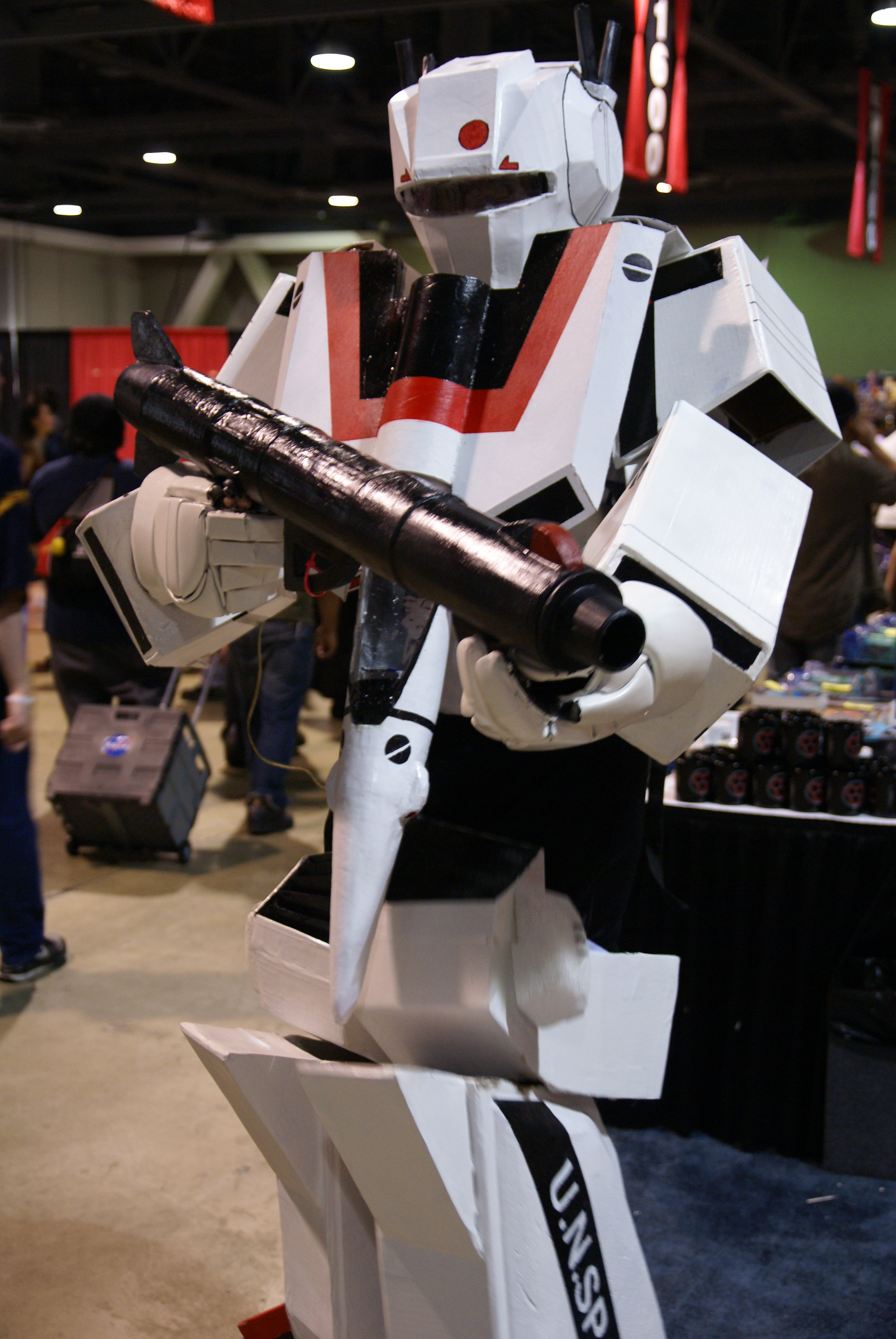 A man in VF-1 Valkyrie costume at Anime Expo 2007. VF-1 Valkyrie is a type of robot from the anime series Robotech and Macross.